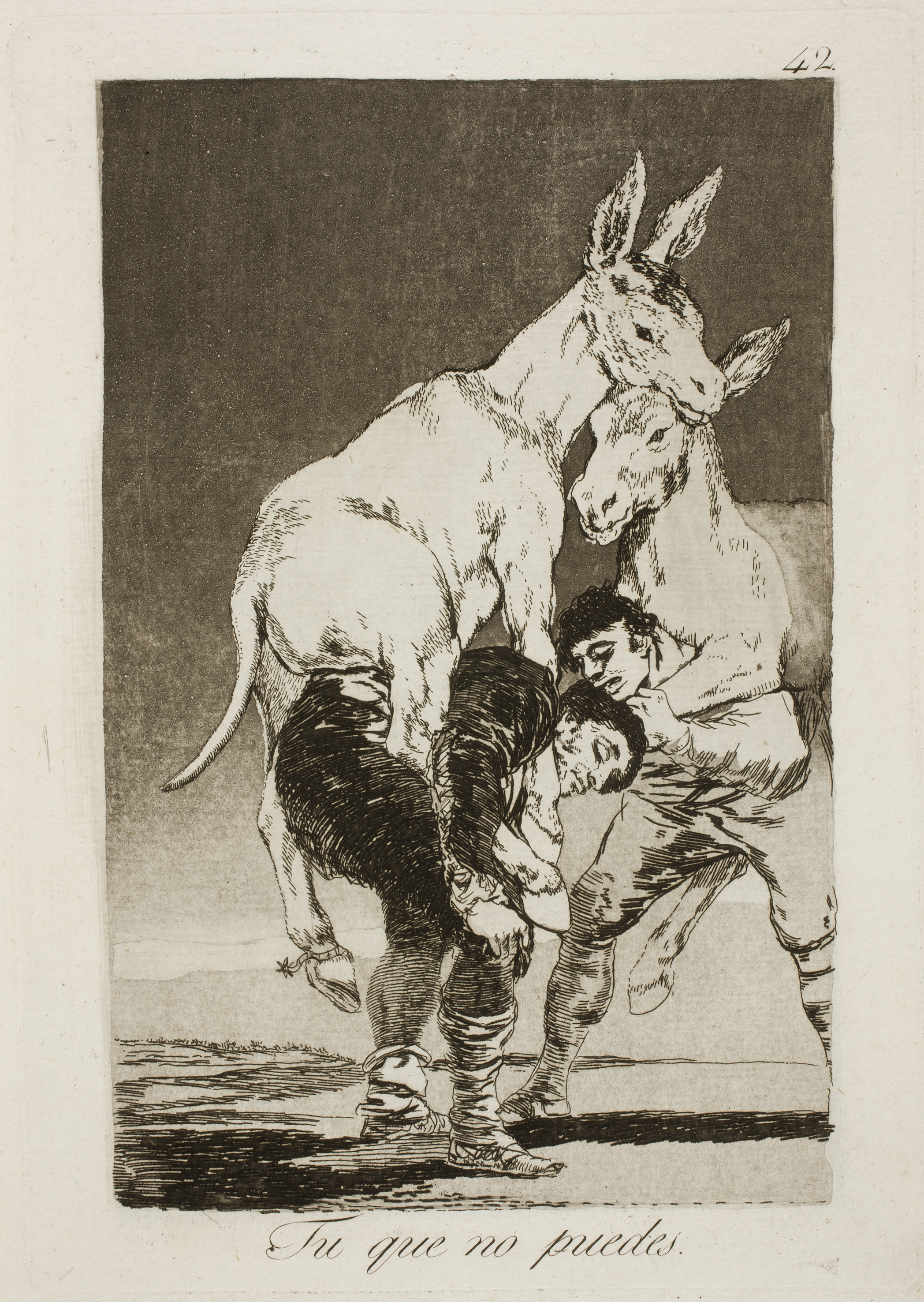 This print is work No. 42 of the "Caprichos" series (1st edition, Madrid, 1799).